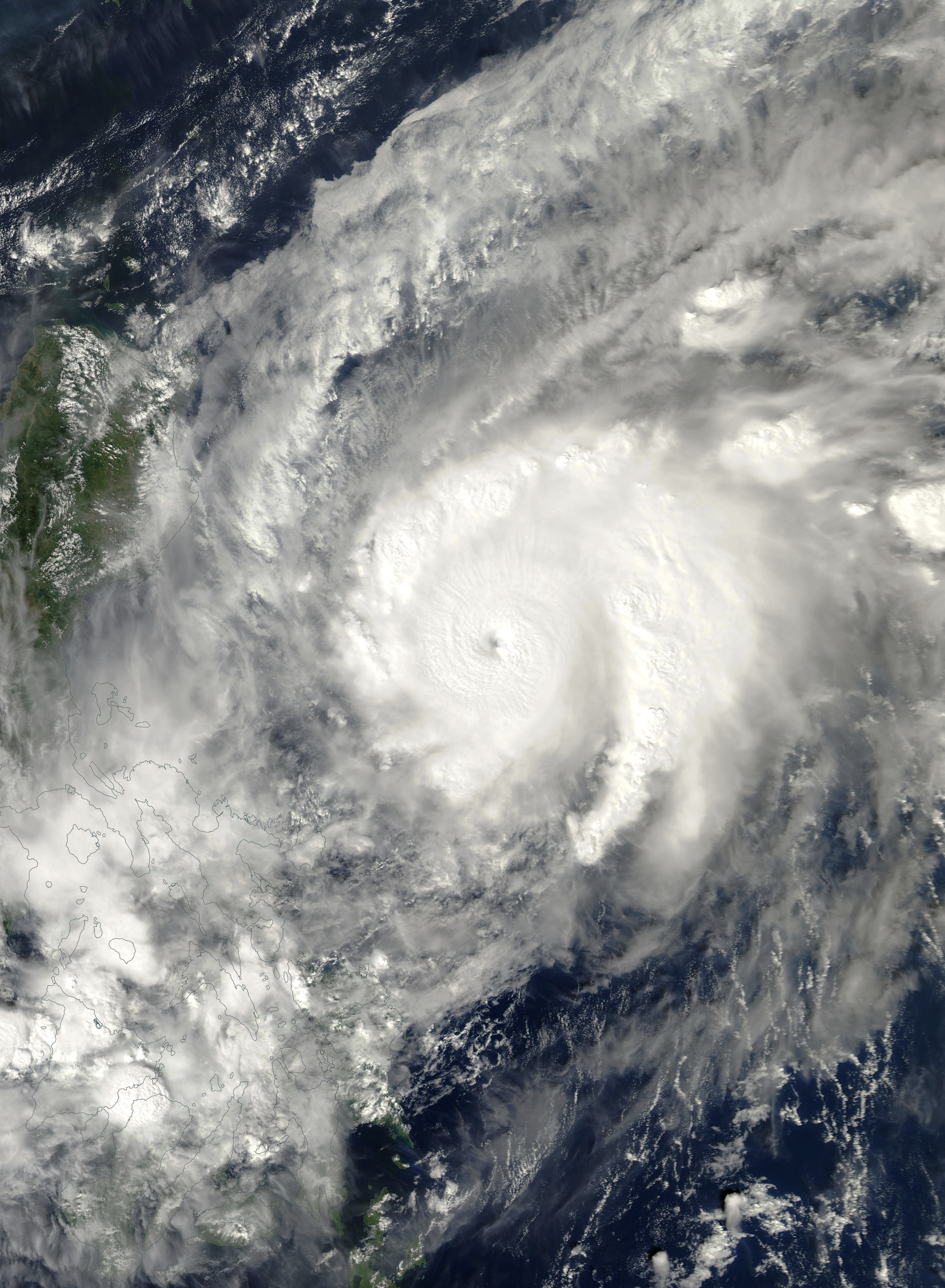 Typhoon Chebi at peak strength.